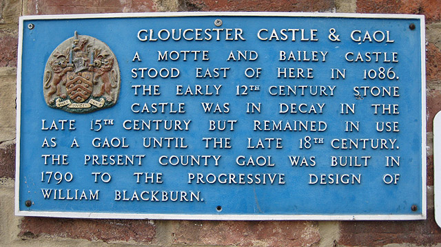 Gloucester castle and gaol Informative plaque on the prison wall in Barbican Road.